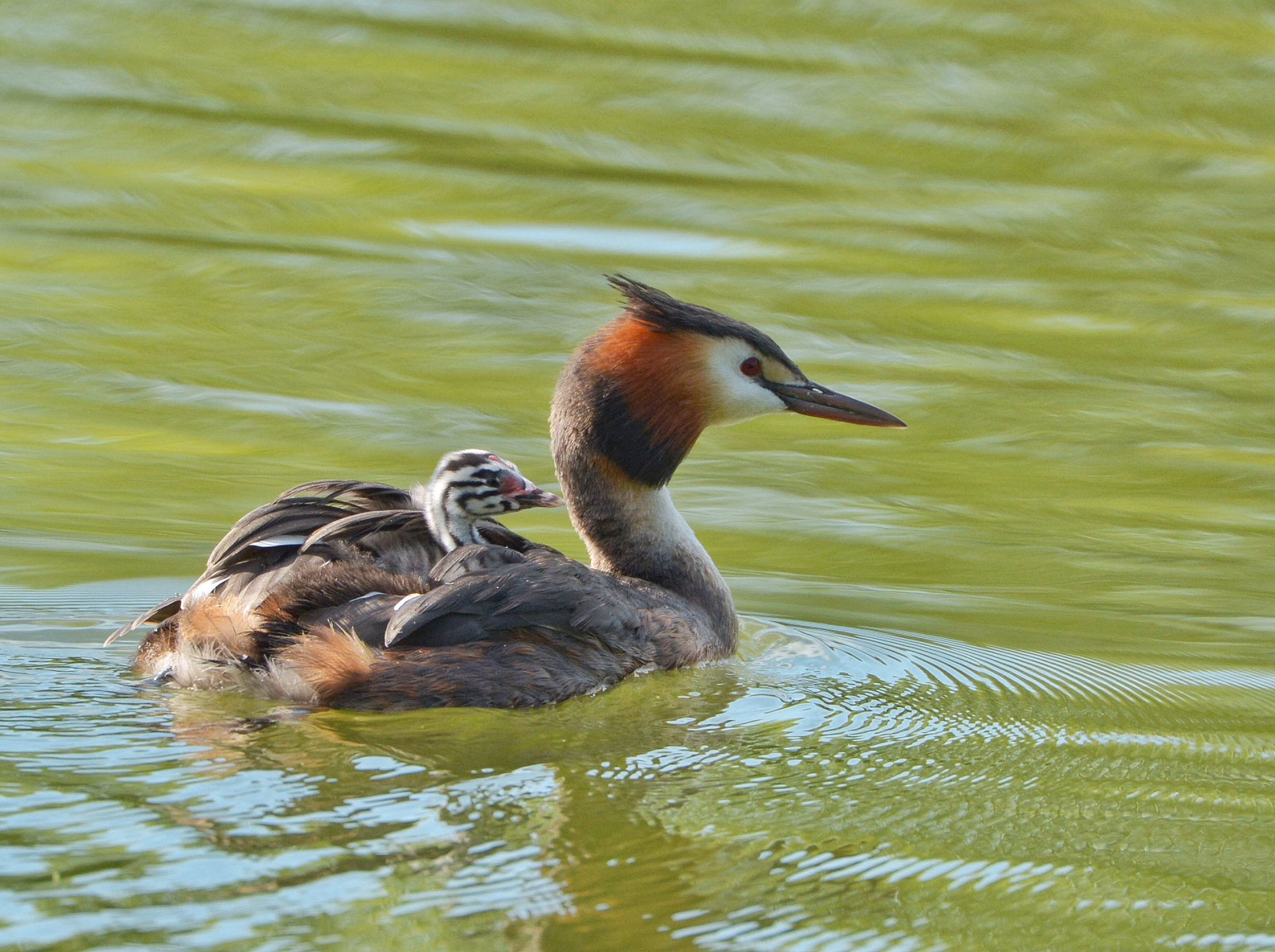 Great Crested Grebe chick being carried by female adult.